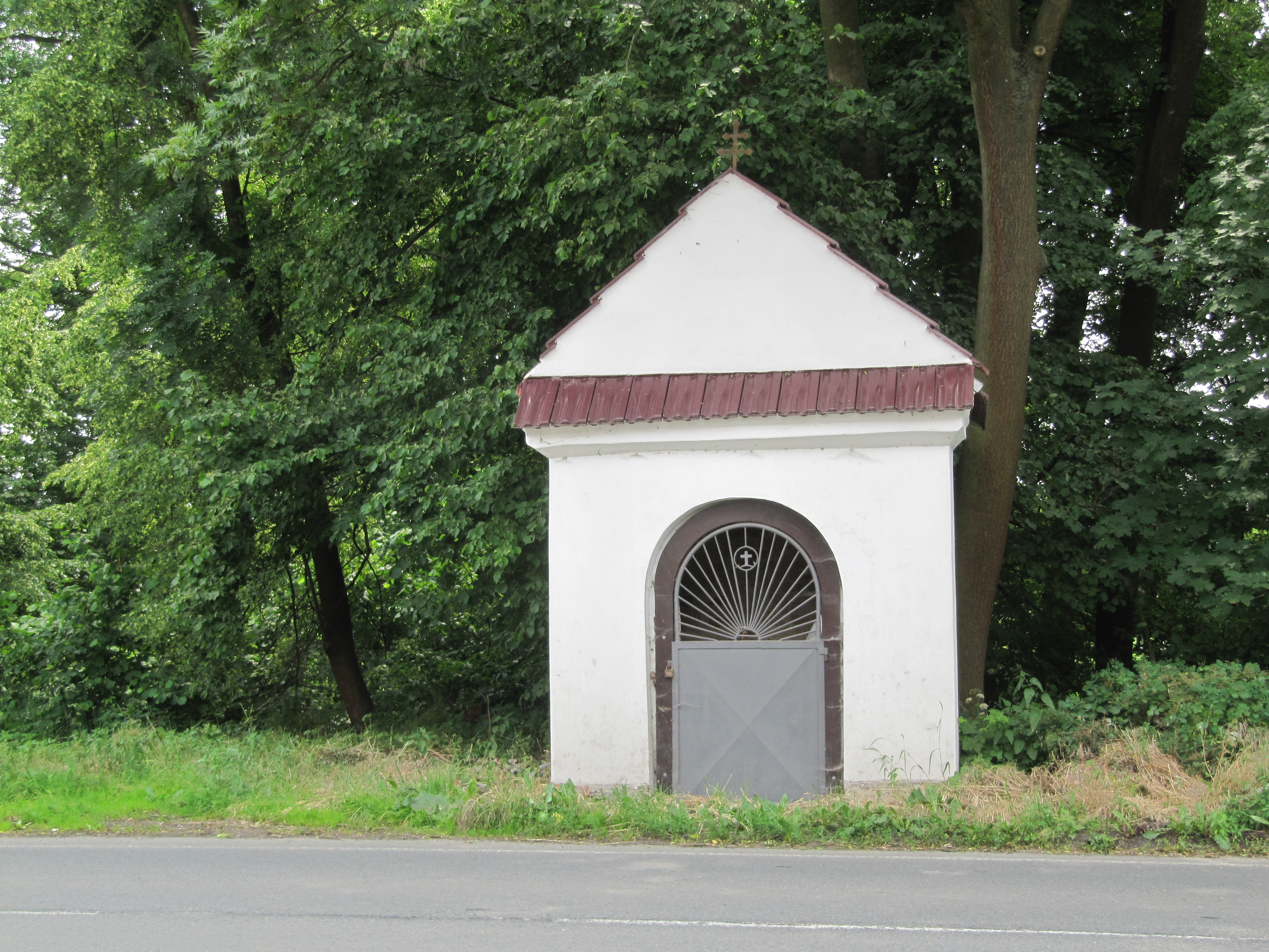 Klimkovice, Ostrava-City District, Czech Republic, part Hýlov.